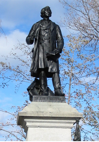 Statue of John A. Macdonald in Ottawa.